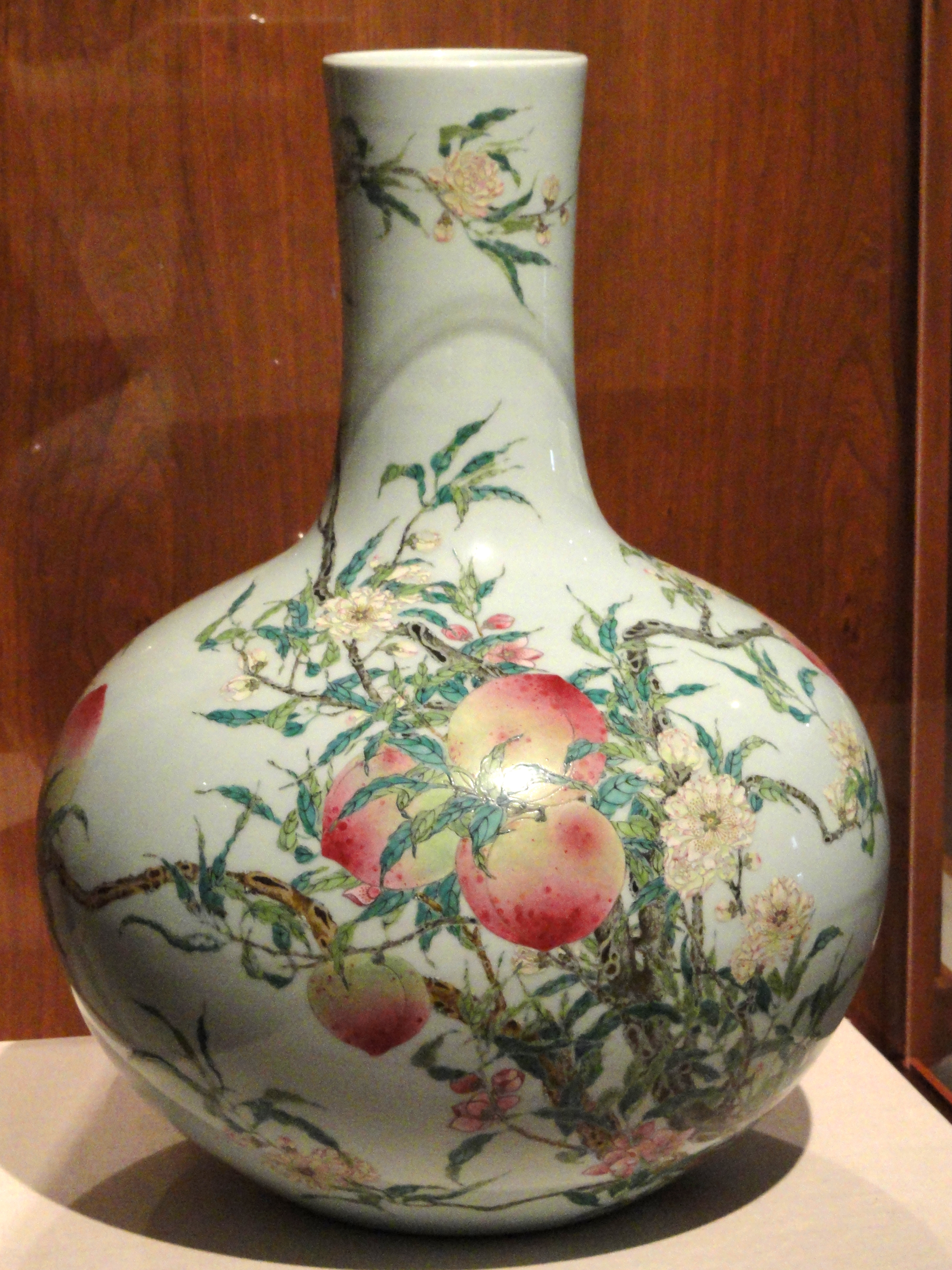 Vase with Nine Peach Design, Chinese porcelain, Qianlong period 1736-1795. Exhibit in the Indianapolis Museum of Art, Indianapolis, Indiana, USA.